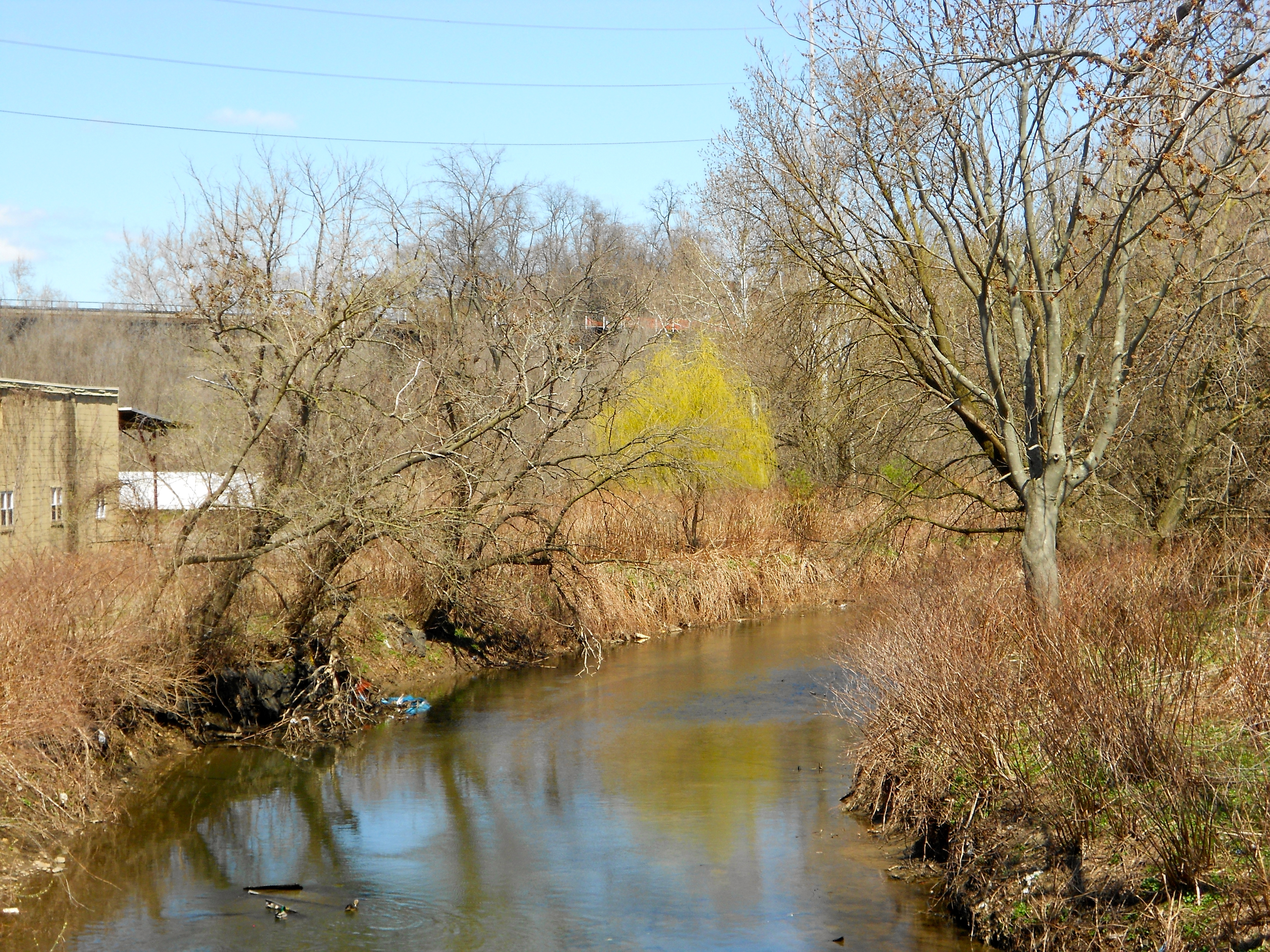 Darby Creek looking north from the Pine Street Bridge in Darby, Pennsylvania